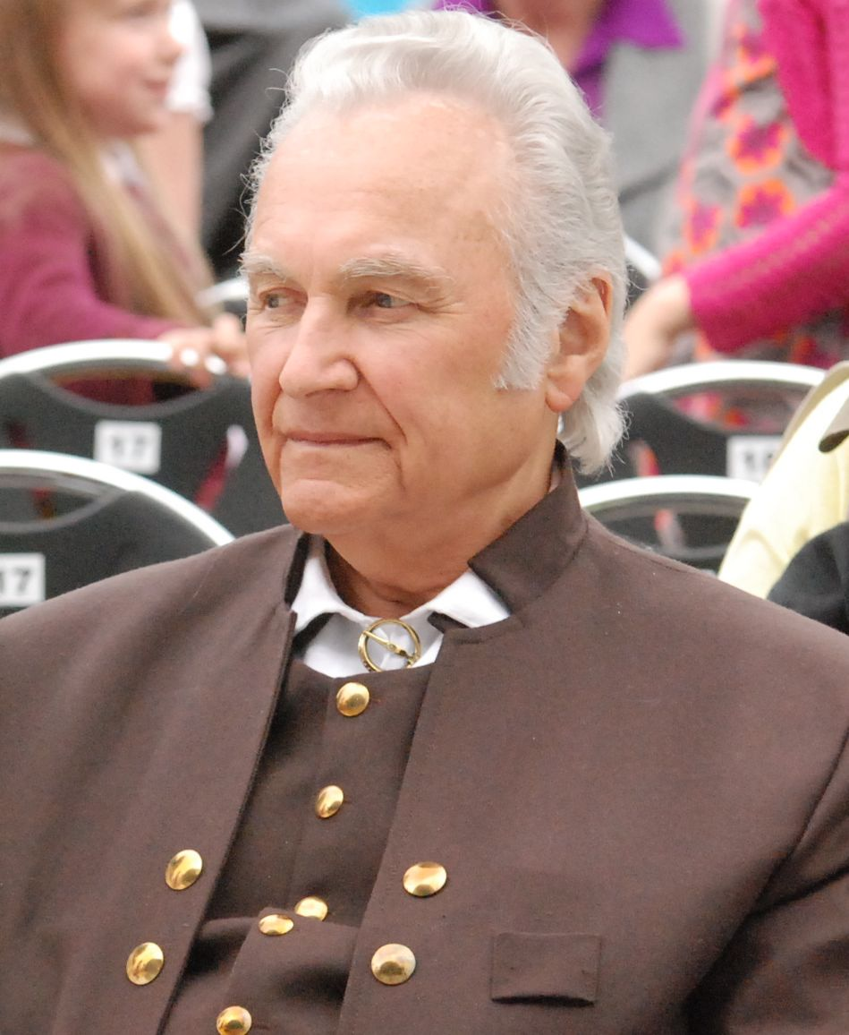 Estonian President Arnold Rüütel with his wife Ingrid Rüütel at XXV Estonian Song Celebration in 2009.